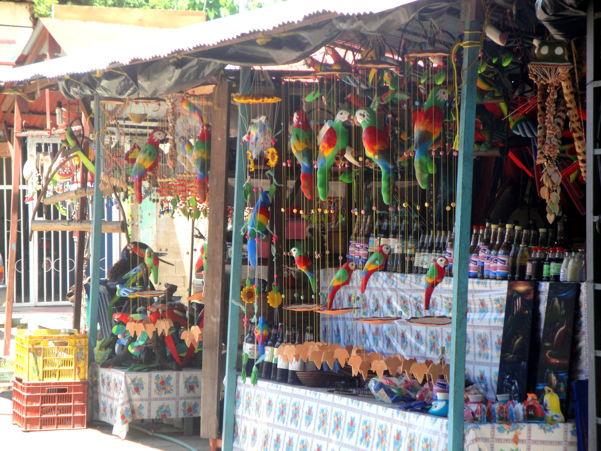 Amoazonian craft